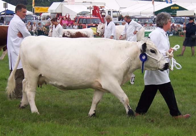 A British White cow at the Romsey Show 2005